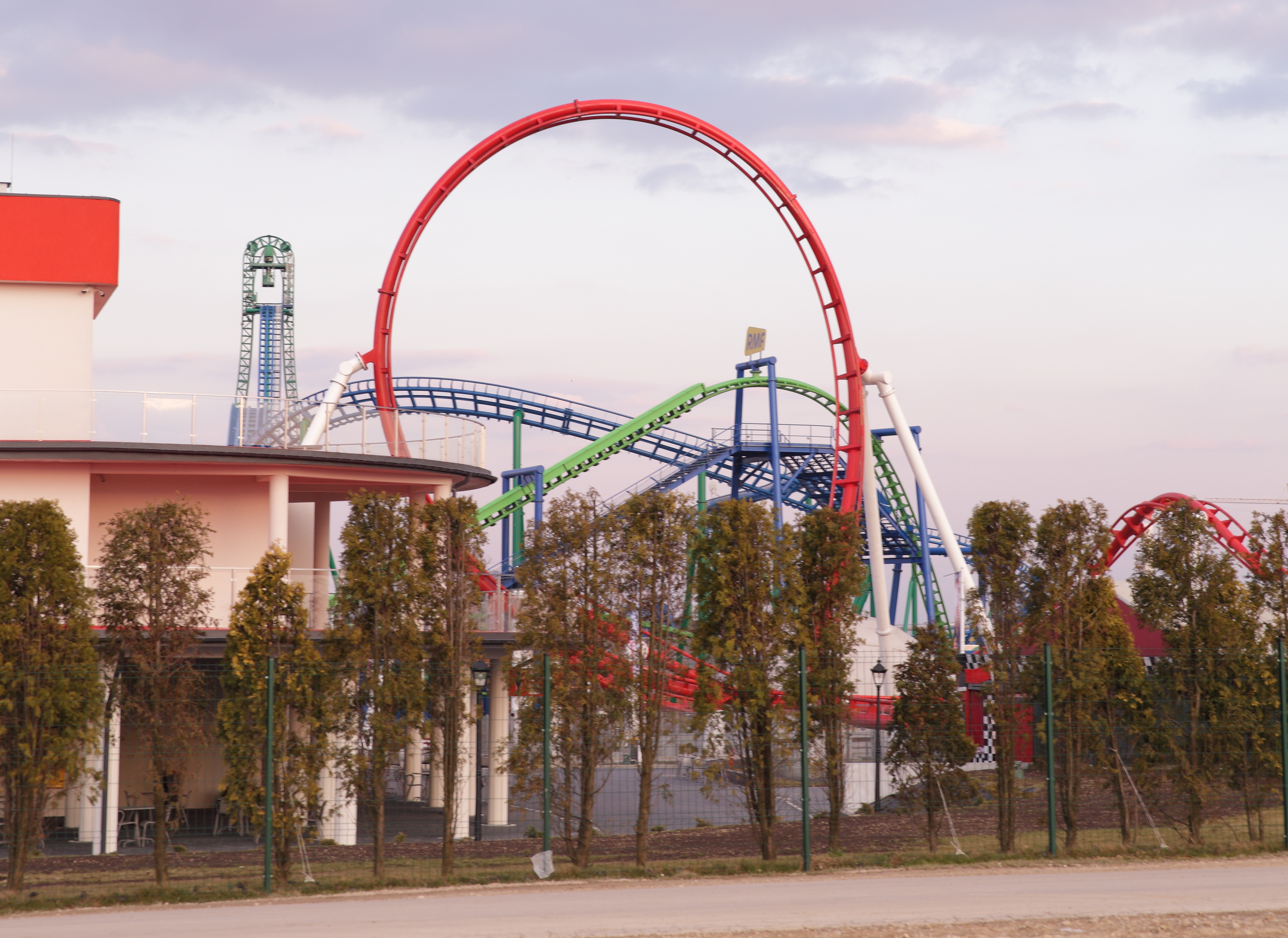 Formuła (Vekoma Space Warp Launch Coaster) and Dragon (Vekoma Suspended Family Coaster) in Energylandia, Zator, Poland.